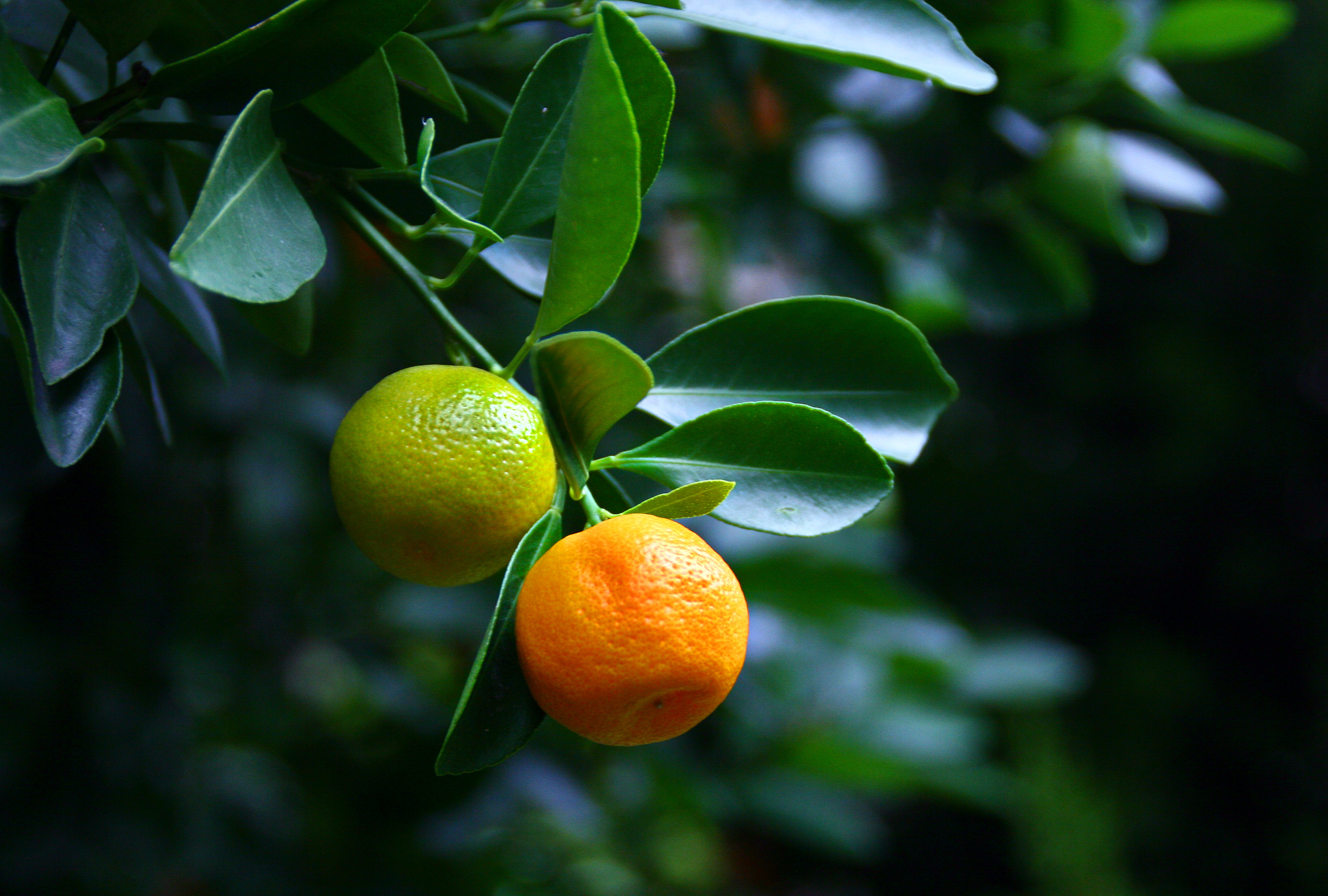 oranges